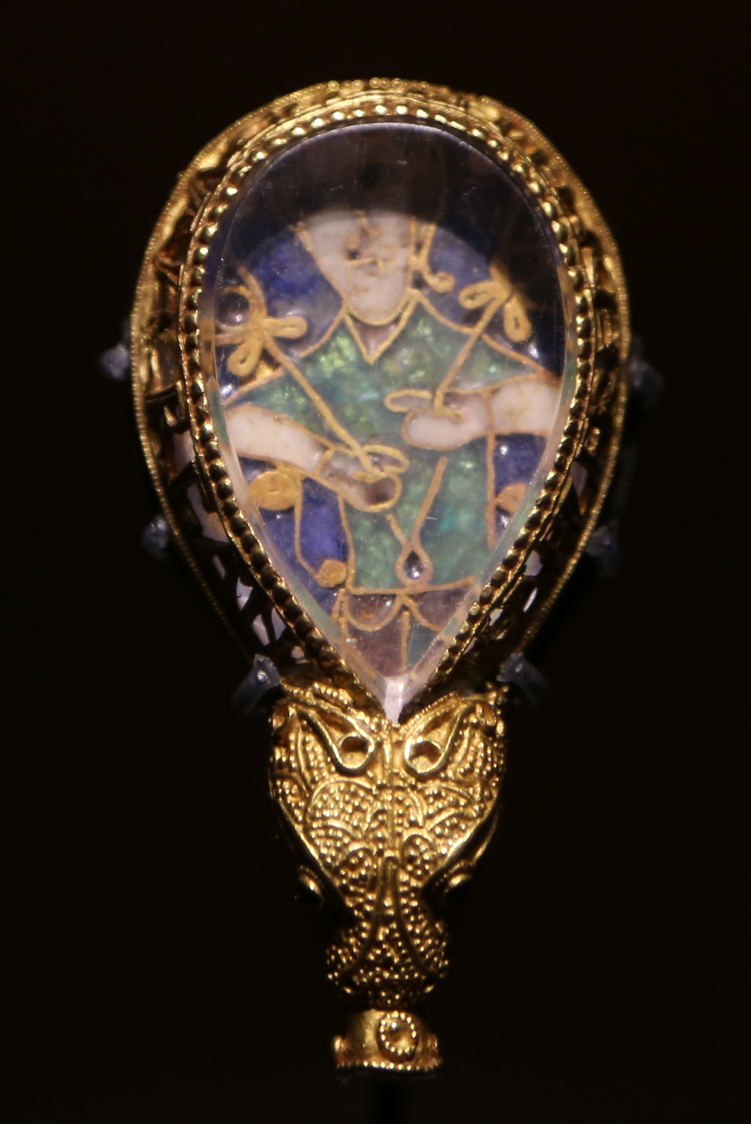 Photo of the Alfred Jewel taken from the front